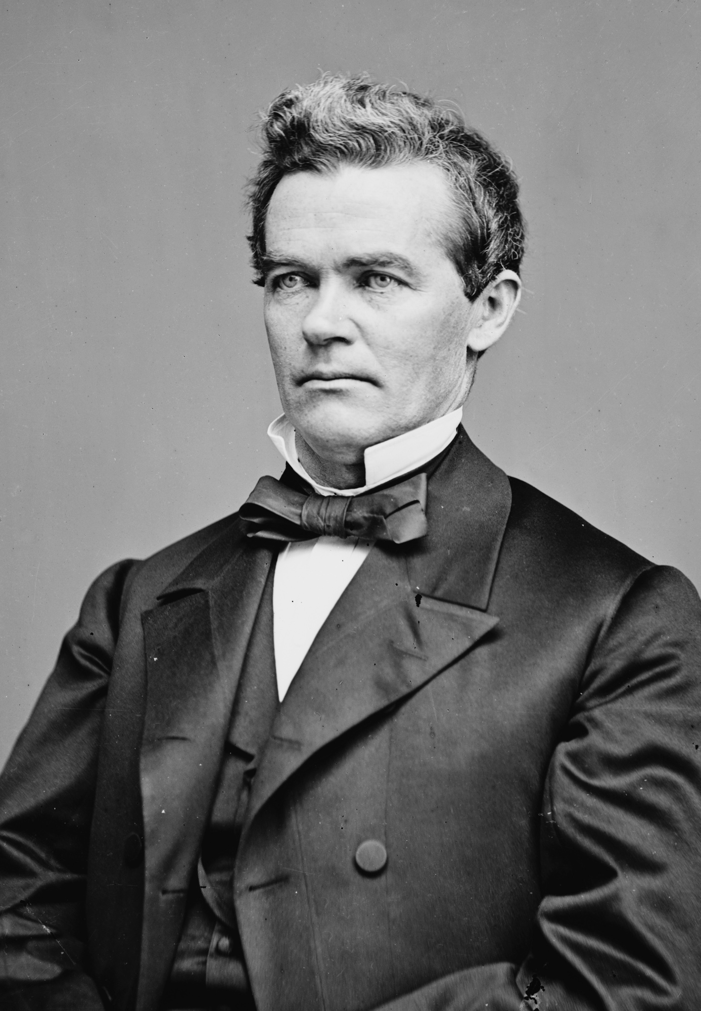 TITLE: Hon. John Conness CALL NUMBER: LC-BH82- 4567 C [P&P] REPRODUCTION NUMBER: LC-DIG-cwpbh-01372 (b&w copy scan) No known restrictions on publication. MEDIUM: 1 negative : glass, wet collodion. CREATED/PUBLISHED: [between 1855 and 1865] NOTES: Title from unverified information on negative sleeve. Forms part of Brady-Handy Photograph Collection (Library of Congress). FORMAT: Portrait photographs 1850-1870. Glass negatives 1850-1870. REPOSITORY: Library of Congress Prints and Photographs Division Washington, D.C. 20540 USA DIGITAL ID: (b&w scan) cwpbh 01372